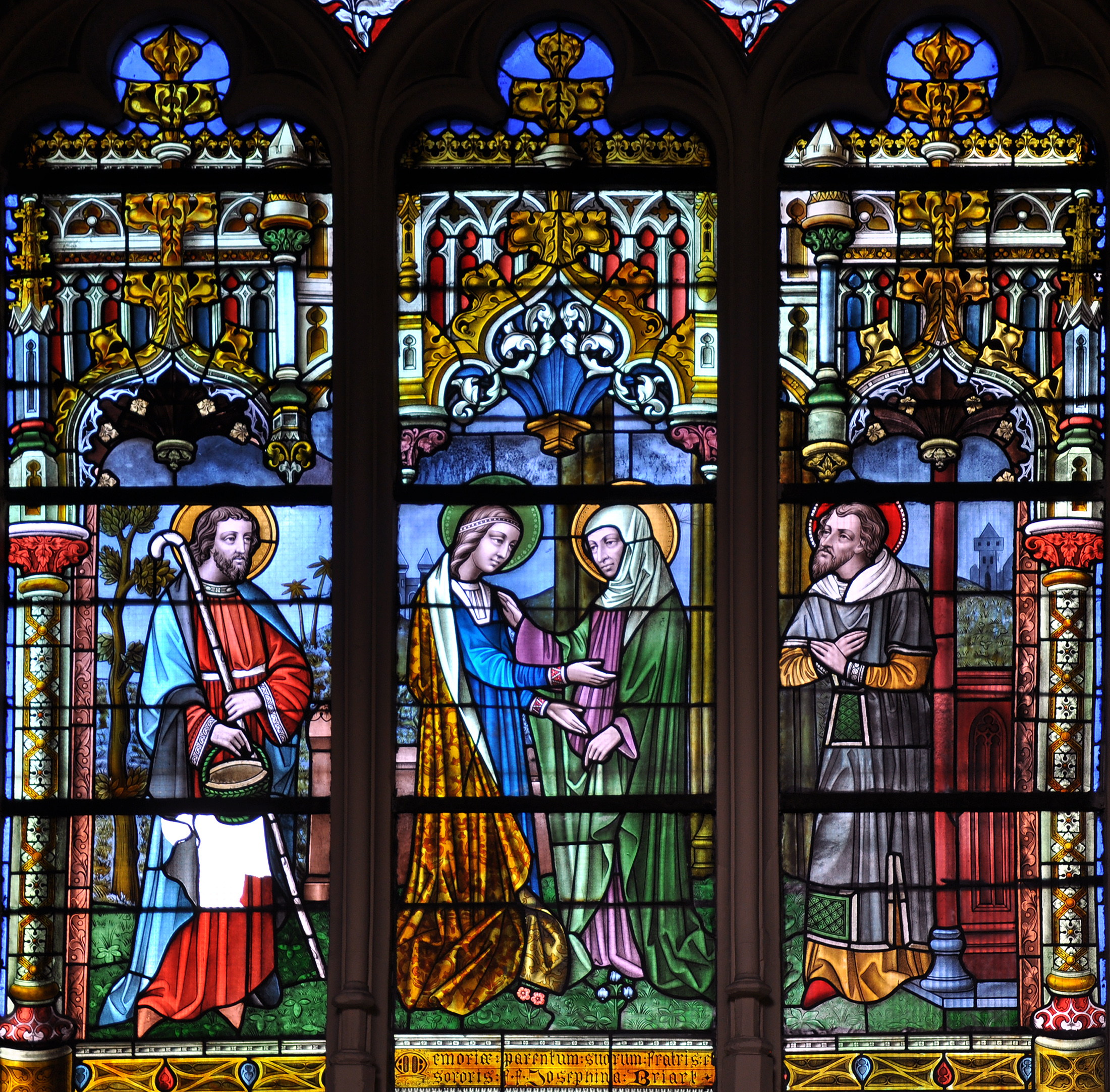 A stained glass window in Saint Jacques's Church, Liège (Belgium): the Visitation.